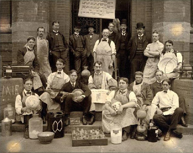 Sheffield Scientific School Chemistry Class of 1898, photo by Randall & Abbott. as old image. retrieved from